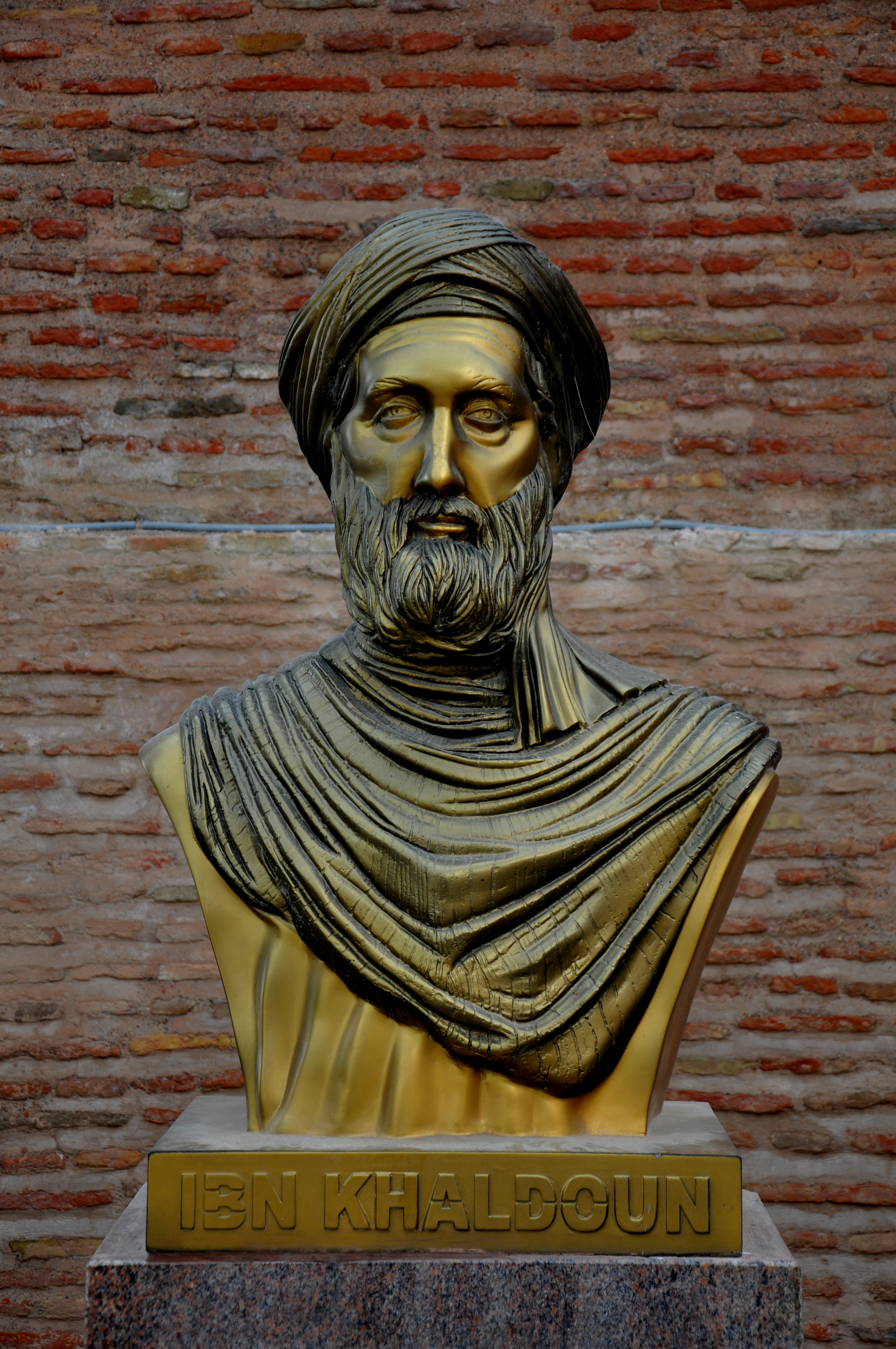 Bust of Ibn Khaldoun in the entrance of the Casbah of Bejaia, Algeria.